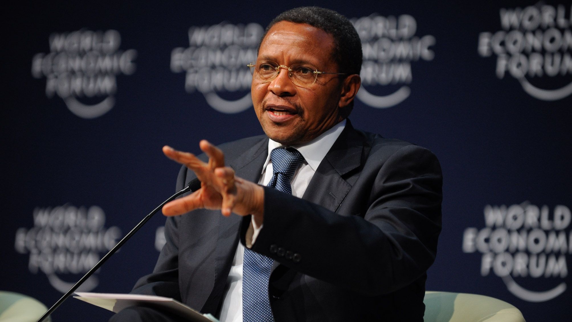 Jakaya Kikwete, fourth President of Tanzania, during World Economic Forum on Africa 2011.